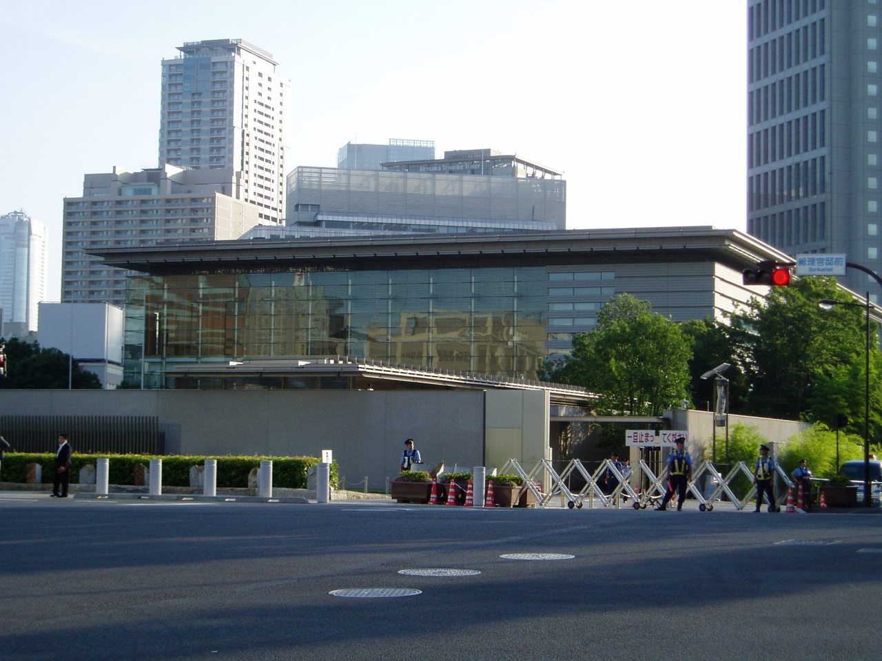 Prime Minister's Official Residence (Chiyoda Ward, Tōkyō Metropolis)